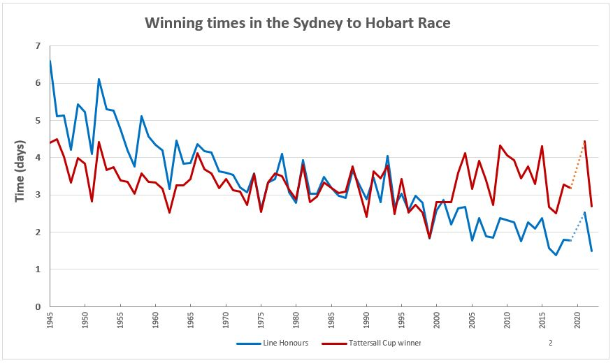 Graph of Race Finishing time (line honours) against the Race year, to show the general decreasing trend of times. Was created by myself with OpenOffice 2.0, using data from